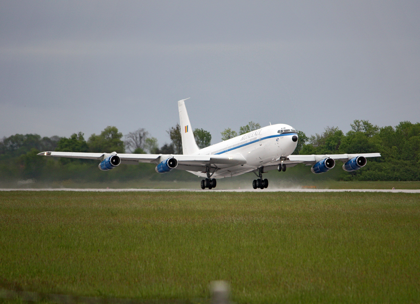 The airplane of the President of Romania. Here seen on takeoff from Zagreb airport runway 23.